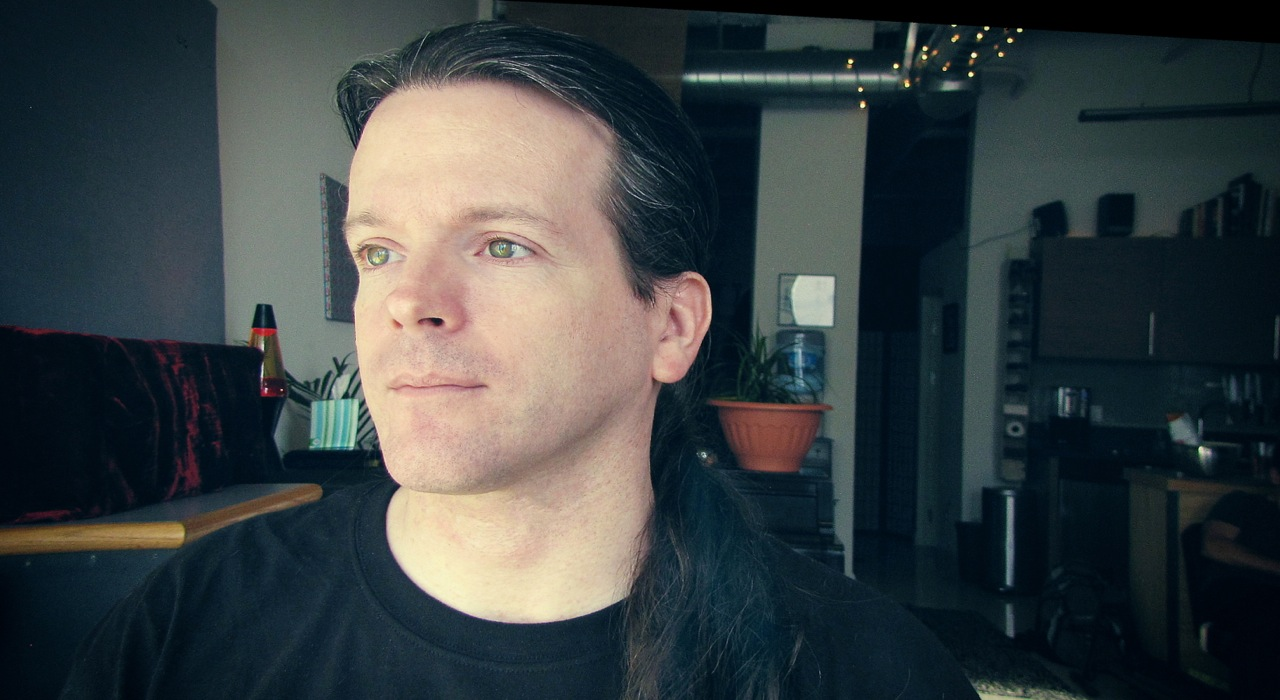 Bassist and Stick player for Cynic and Gordian Knot